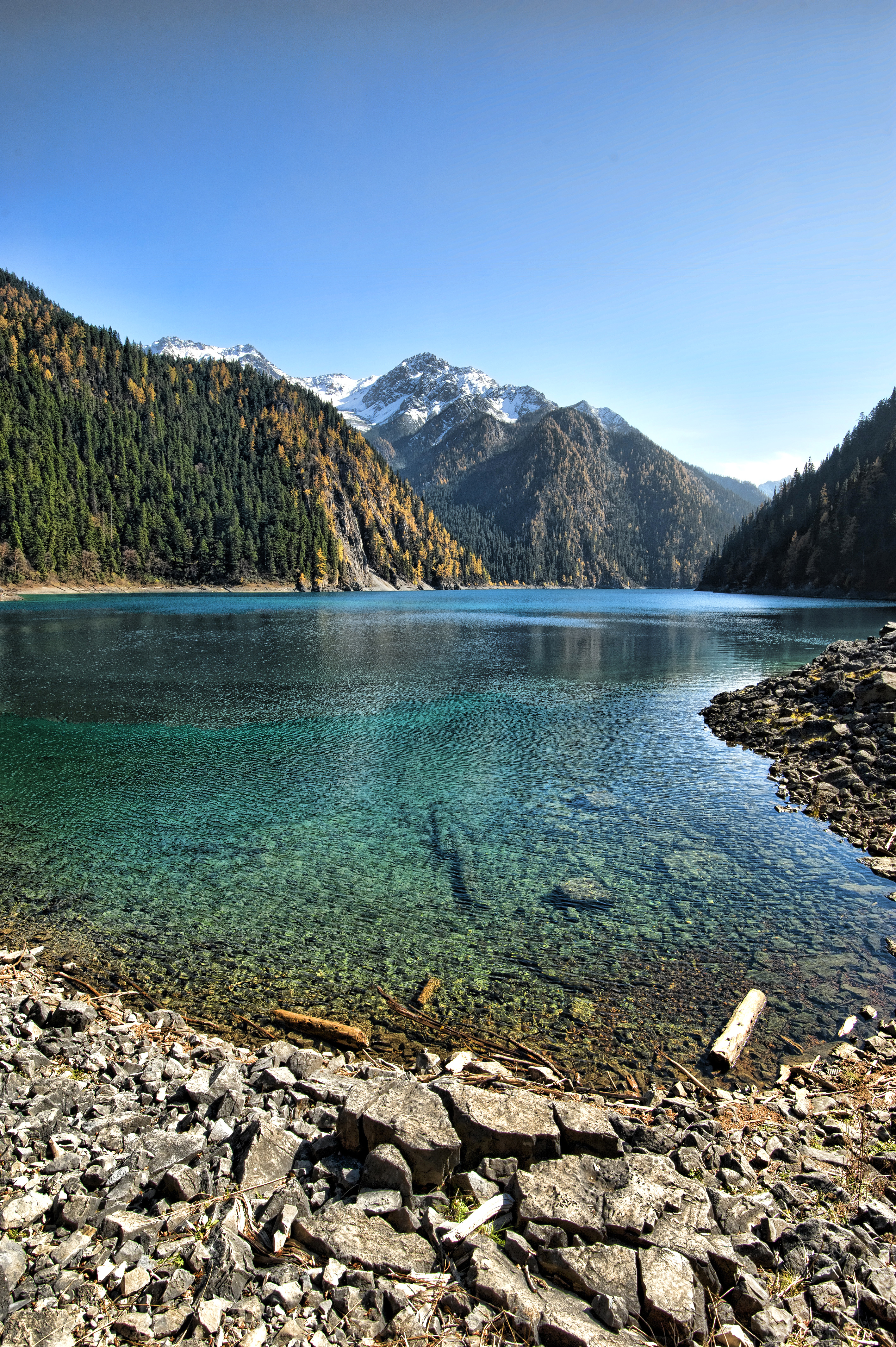 jiuzhaigou valley long lake 长海, Cháng Hǎi zechawa valley 则查洼沟 sichuan china 2011 autumn fall